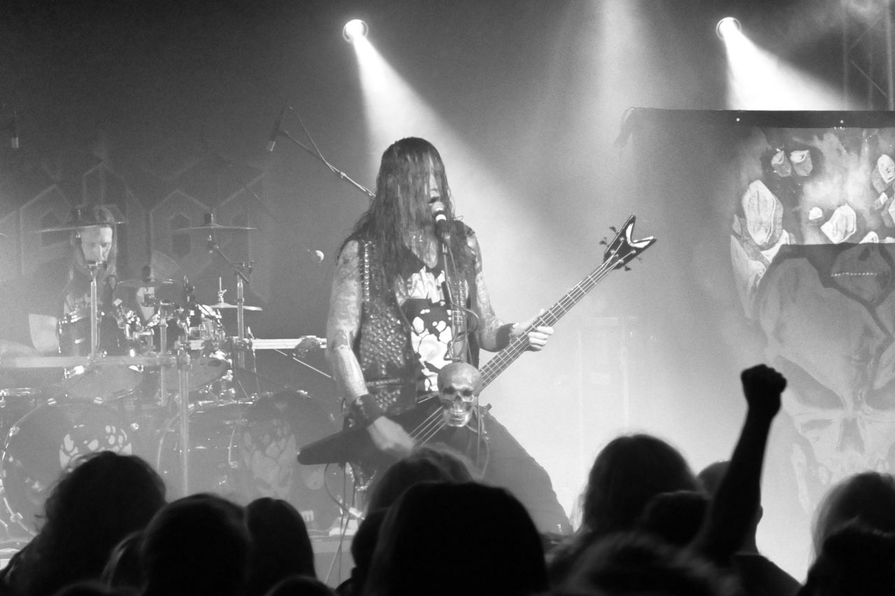 Destruction performing live at Leipzig.